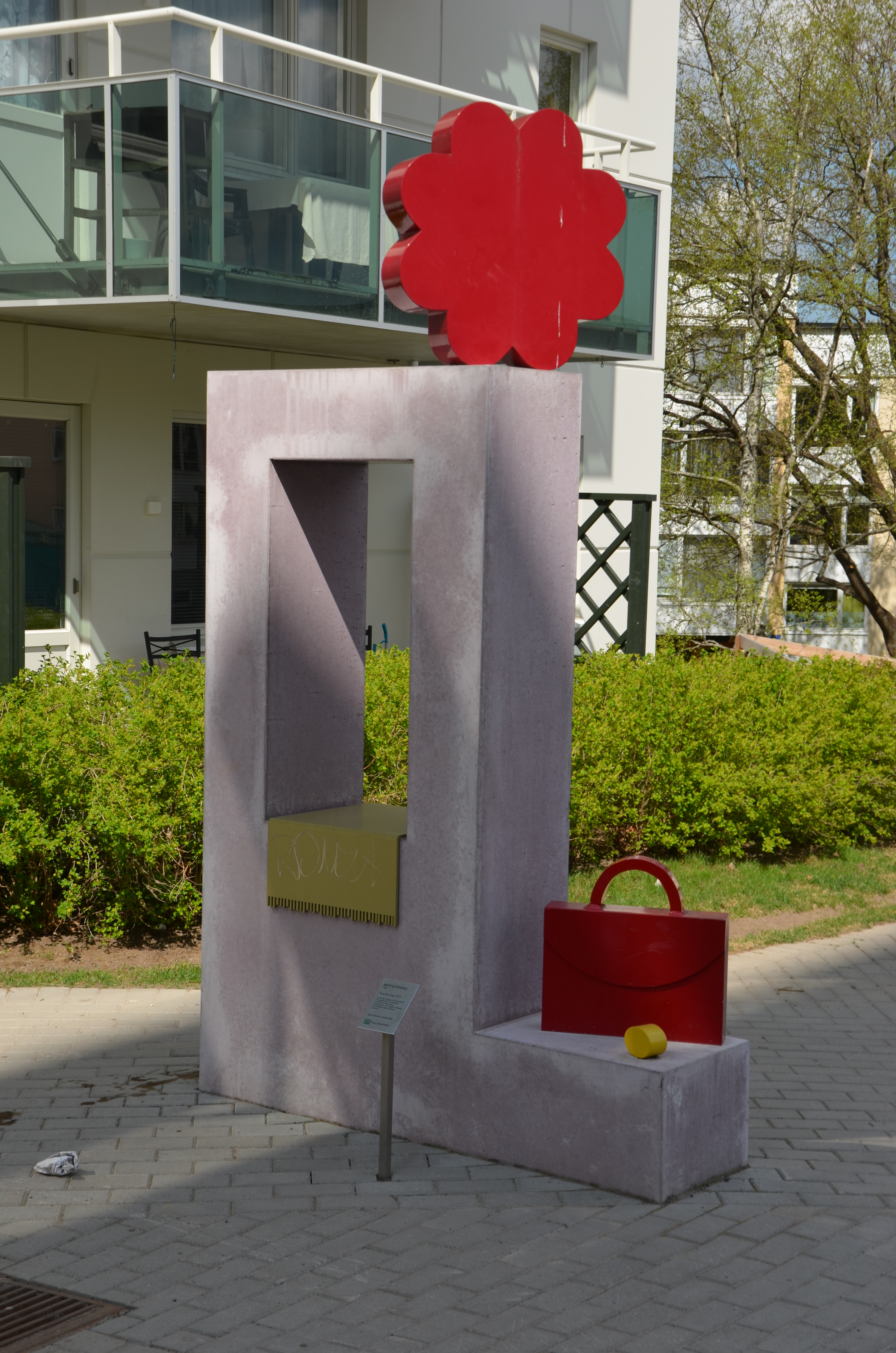 Mette Björnberg's Ha en bra dag!!, Molkomsbacken 20, Farsta, Stockholm